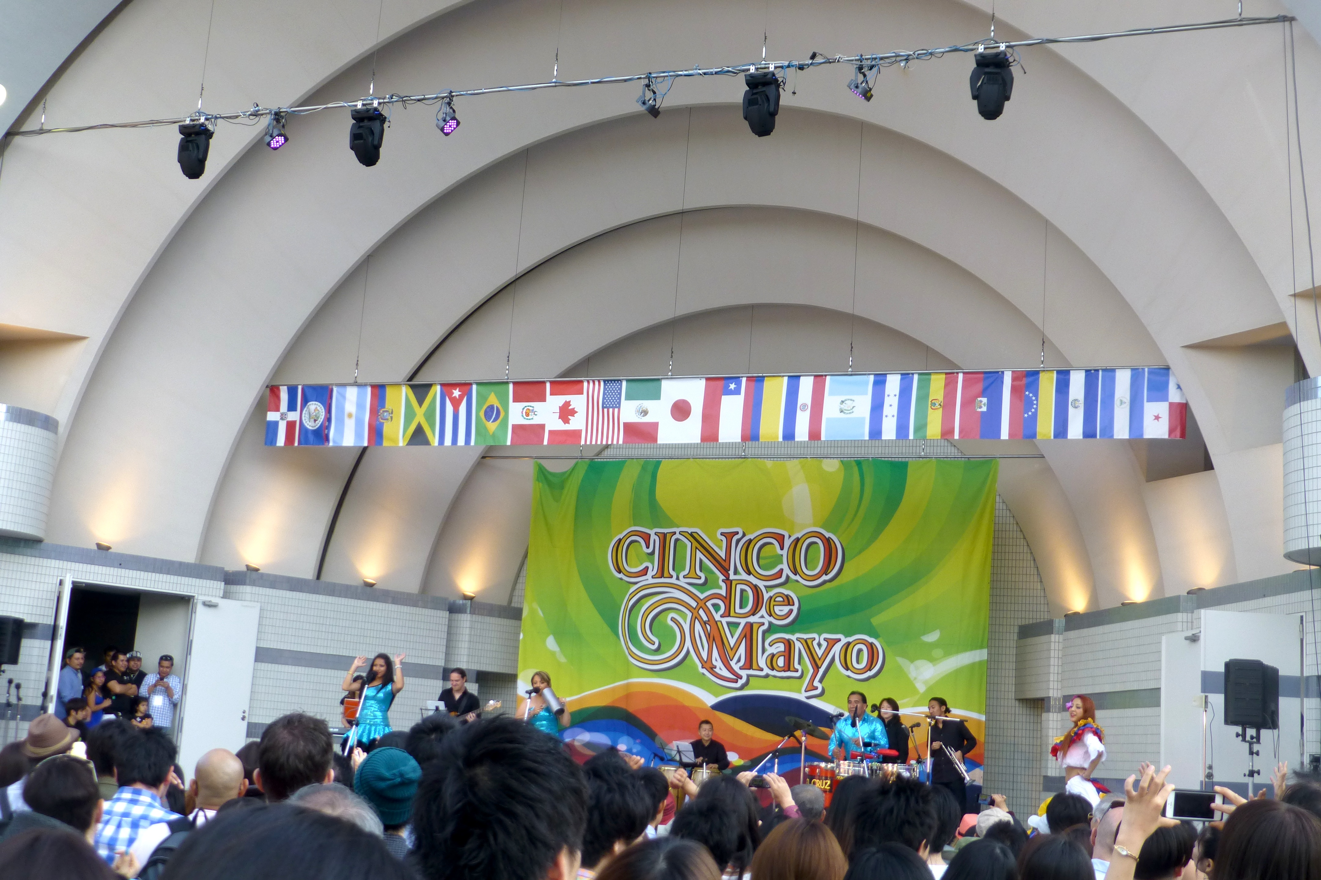 Cinco de Mayo (シンコ・デ・マヨ) festival near Yoyogi park, Tokyo, Japan. (Misael Cruz on stage)